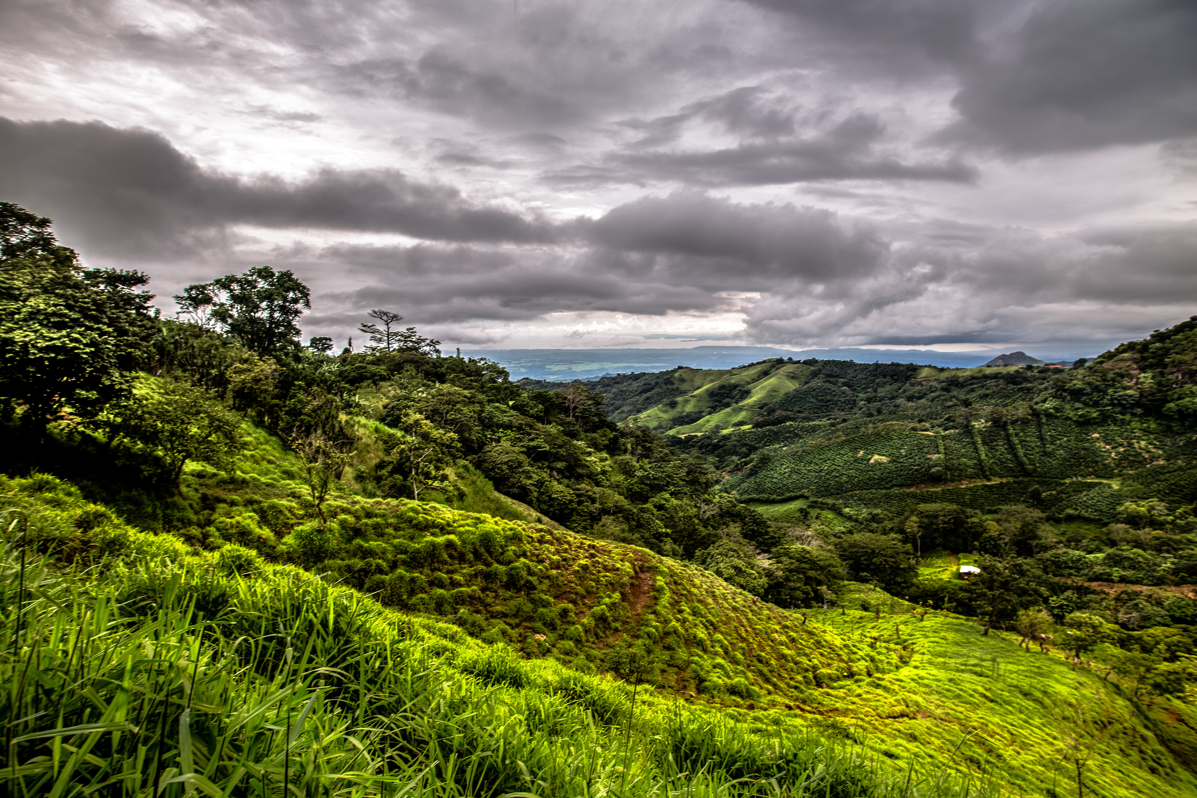 Green pastures with the Nicoya Peninsula in the background